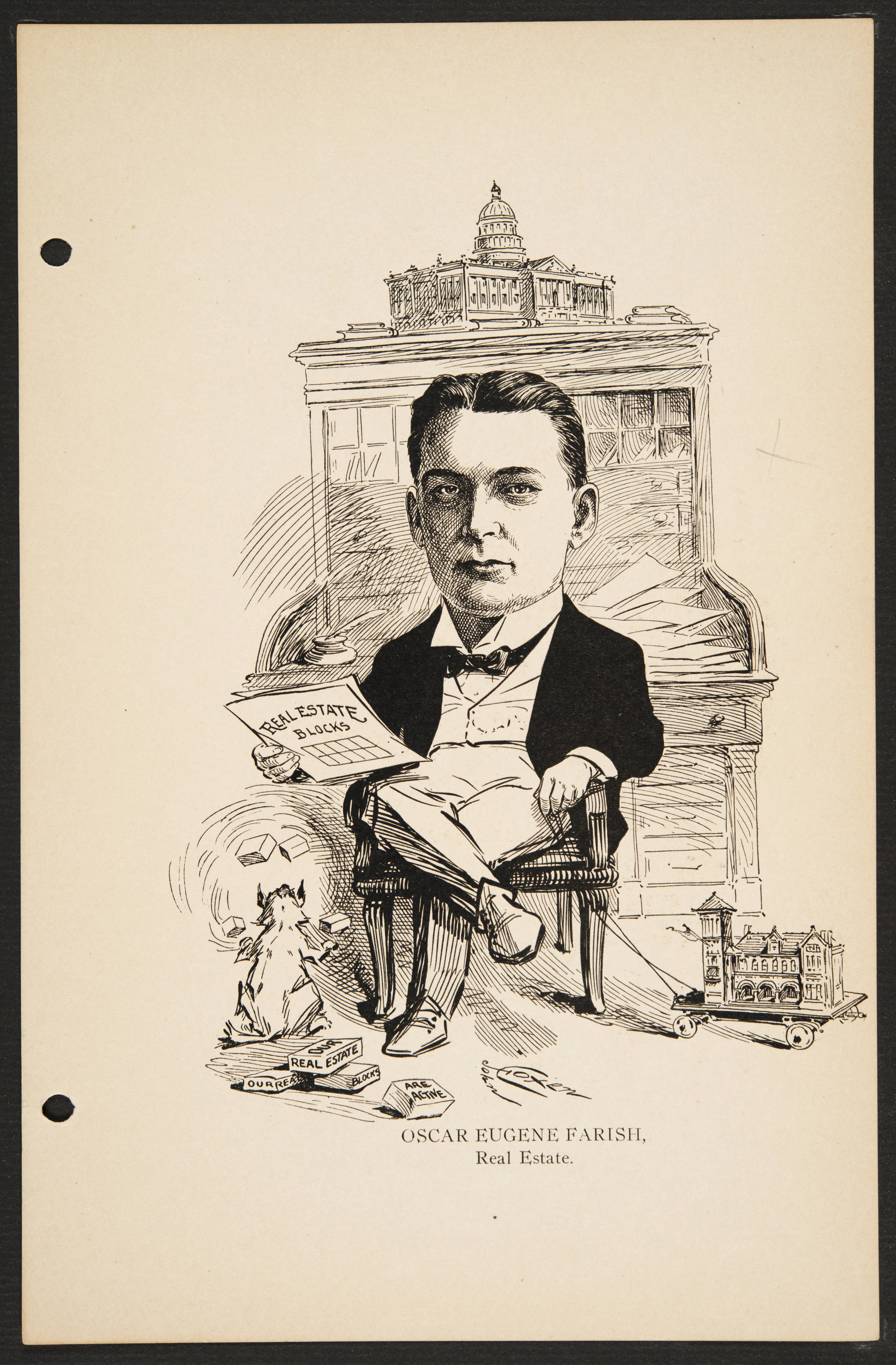 As we see 'em As we see 'em: a volume of cartoons and caricatures of Los Angeles citizens. Portland, Oregon: E.A. Thomson, [1904?-1911?]. With an introduction by Antony E. Anderson. "Photographs from which these pen and ink sketches were produced have been furnished by Schumacher. Place of publication (of the original version): Portland, Oregon, USA Filename: laas-shidler-f860-c12 Coverage date: 1900?/1911 Part of collection: LA as Subject Type: texts; images Part of subcollection: Wally G. Shidler Historical Collection of Southern California Ephemera Repository name: Wally G. Shidler Historical Collection of Southern California Ephemera Format: 316 p. of ports. ; 30 cm. Date issued: 1904?/1911? Repository address: 2934 Cudahy Street, Walnut Park, CA 90255-6829, USA Date created: 1904?/1911? Language: English Subject (topic): Los Angeles (Calif.) -- Biography -- Portraits Contributing entity: Wally G. Shidler Title (alternate): Southern Californians "as we see 'em" Publisher (of the digital version): University of Southern California Format (aat): caricatures; books Creator: Anderson, Antony E., introduction Legacy record ID: laas-m Access conditions: By appointment. Reservations required. Phone 323-581-2367. Contributor: Southern California Printing Co., printer; Thorpe Engraving Col, engraver; Commercial Engraving Co., engraver Publisher (of the original version): E.A. Thomson